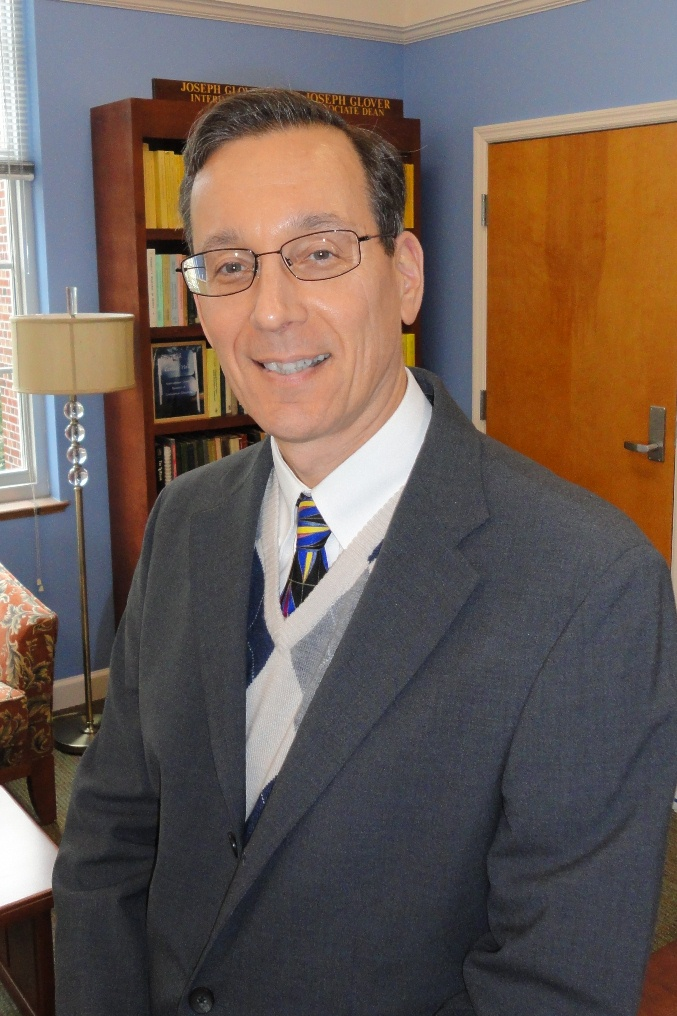 University of Florida Provost Joeseph Glover